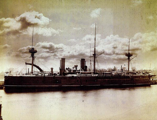 Photograph of British ironclad battleship HMS Alexandra.